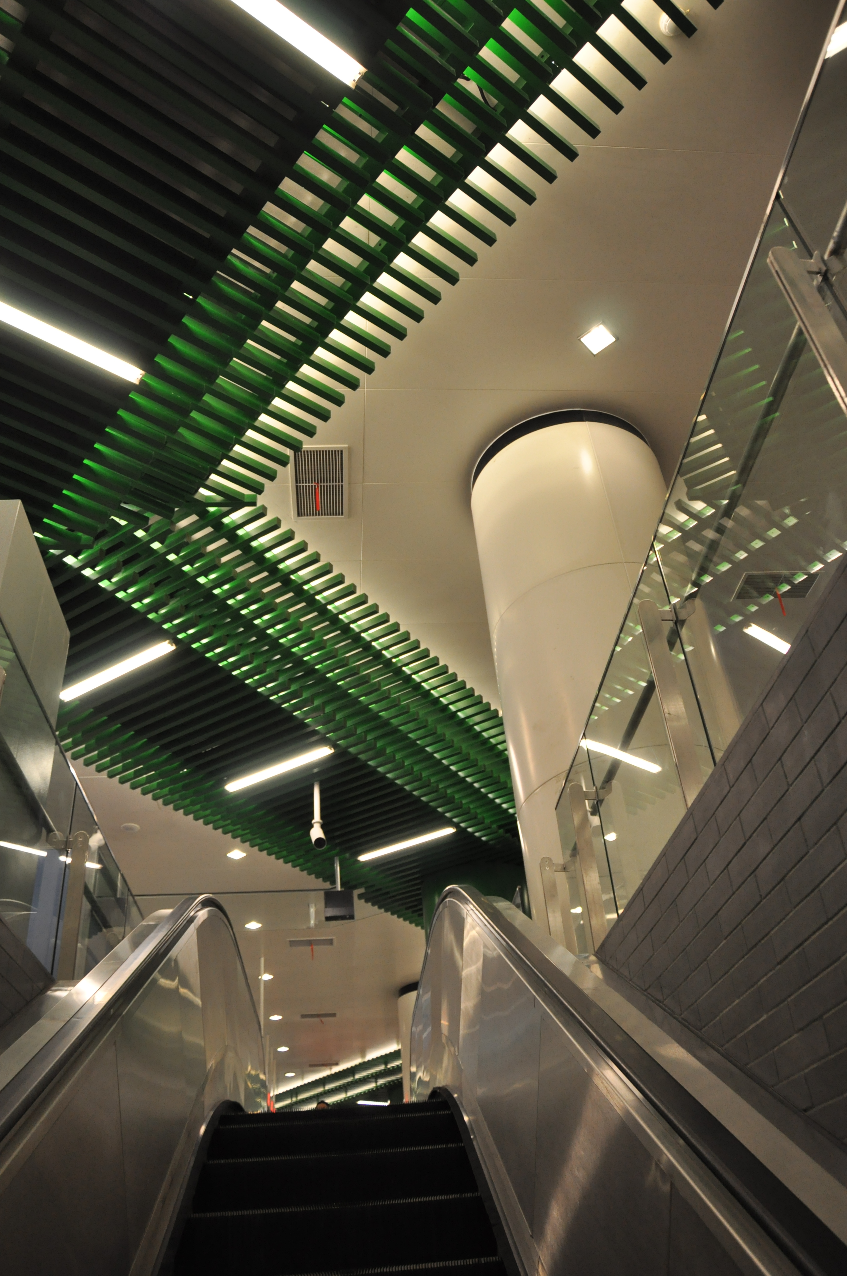 Beihai North Station, Line 6, Beijing Subway. Chinese-traditional-building-style ecoration on the ceiling.